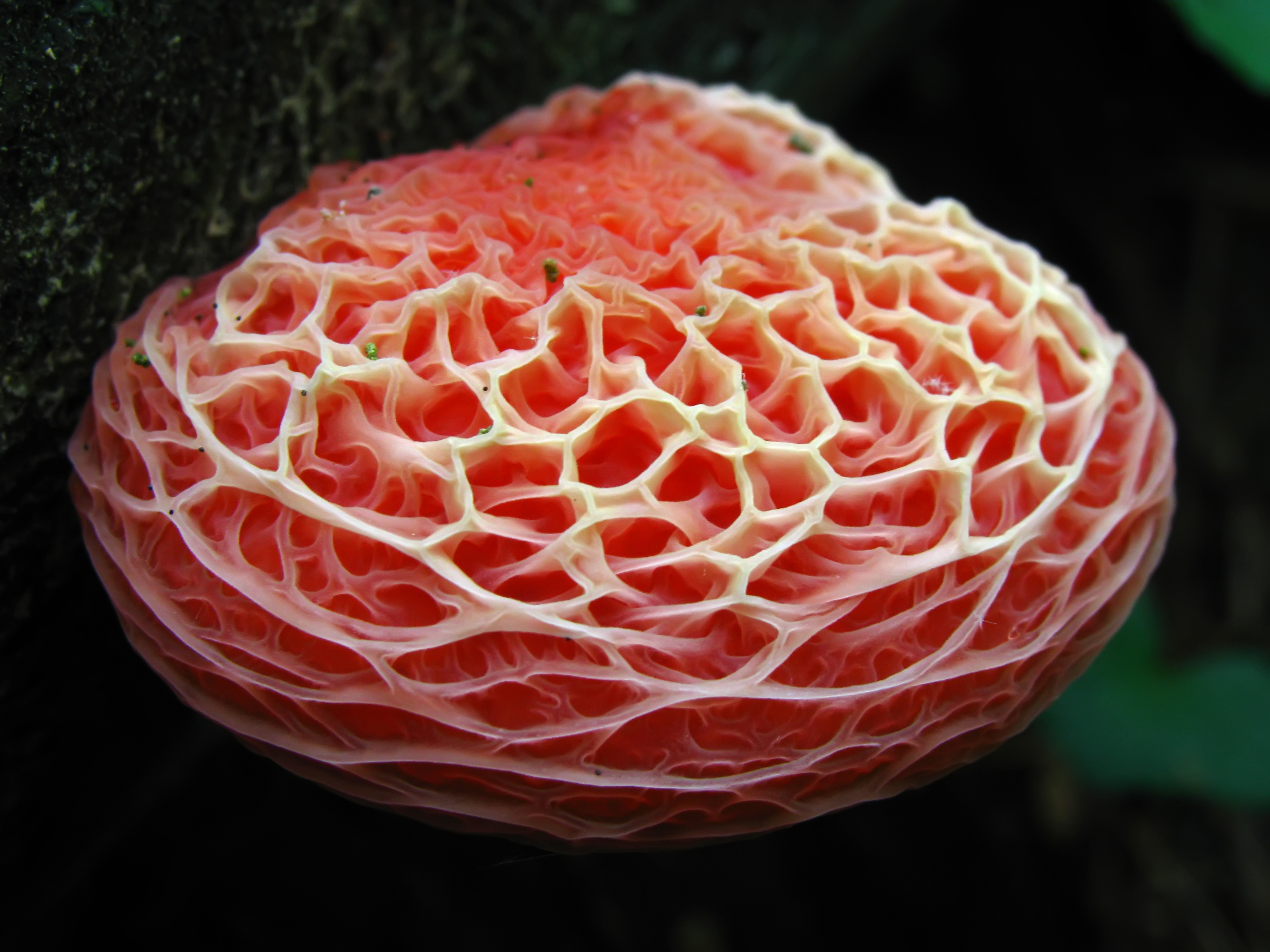 The "wrinkled peach" fungus, species Rhodotus palmatus (Bull.) Maire. Photographed in Strouds Run State Park, Athens, Ohio, USA.